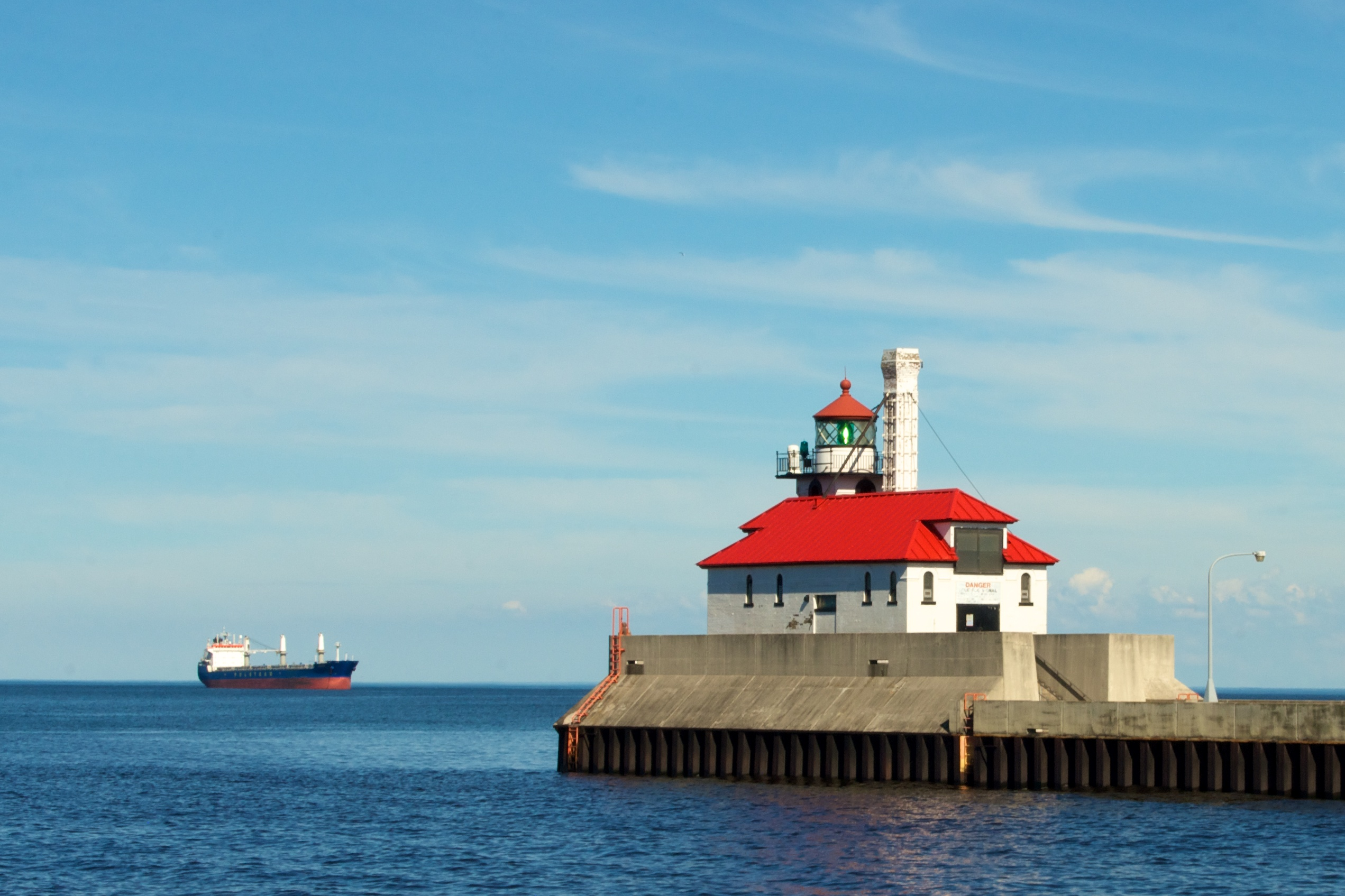 The south pier lighthouse and fog signal building in Duluth is quite a striking building. It still uses the original fresnel lens. The ship in the distance is a salt water vessel that is anchored, apparently waiting to load.